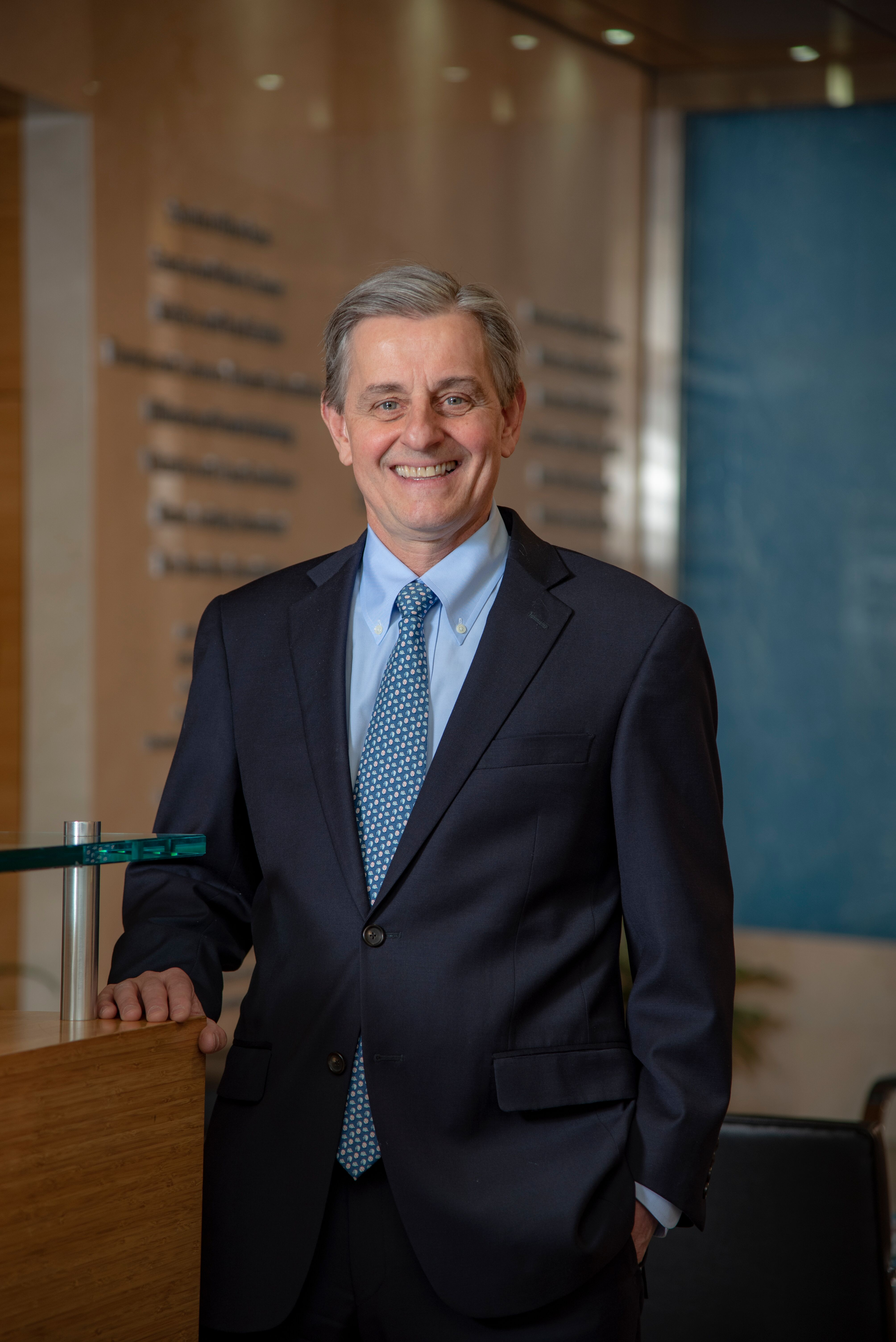 Headshot of Kevin J. Tracey, 2019.